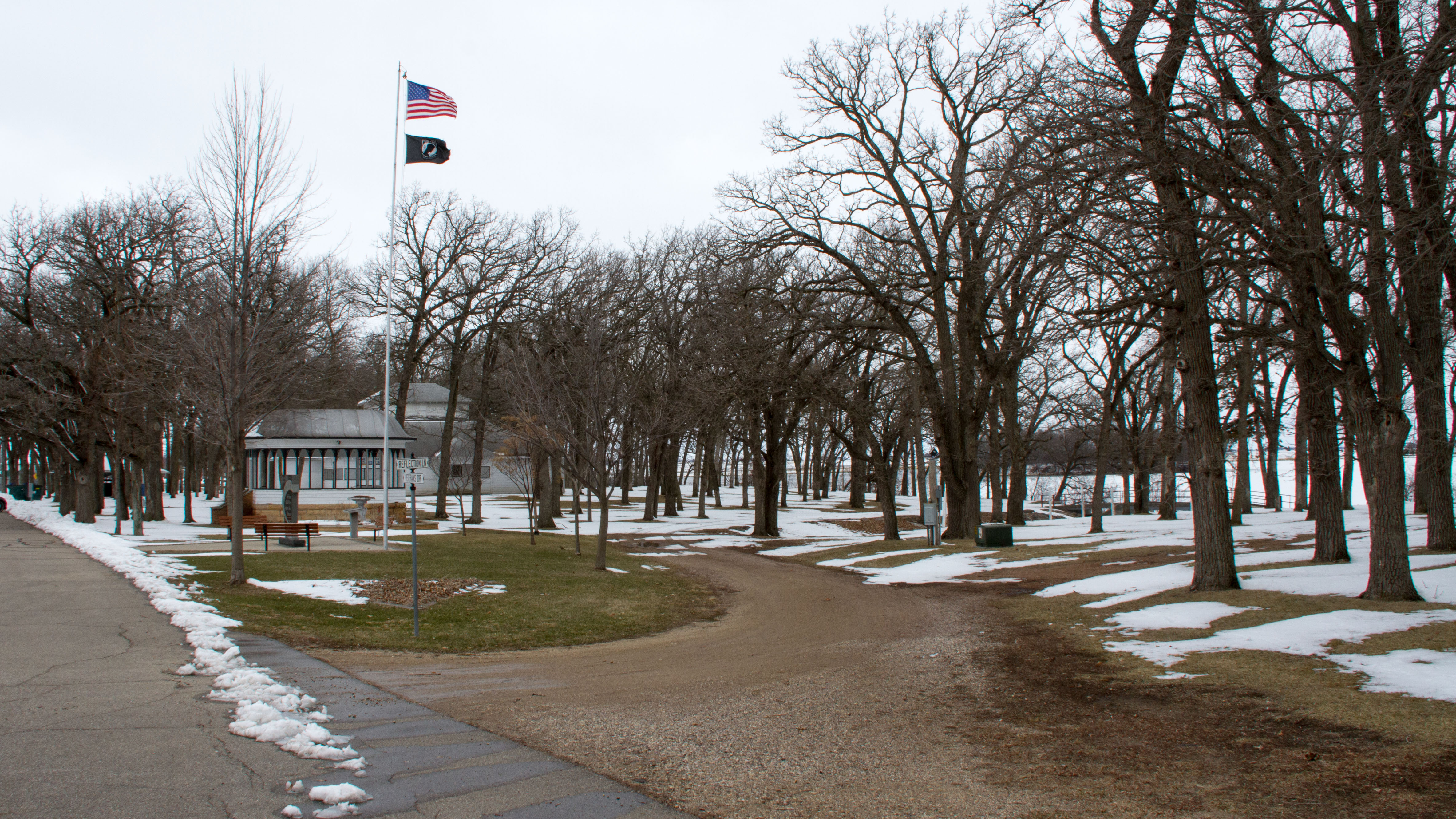 Gaylord City Park, Gaylord, Minnesota, USA.